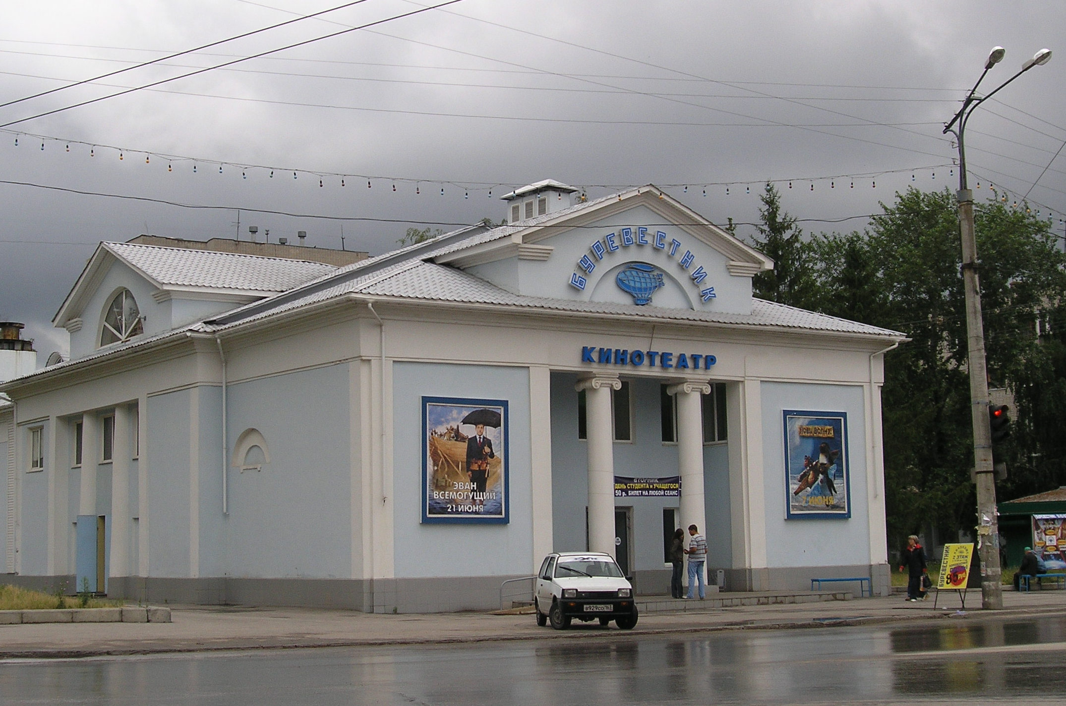 Cinema «Burevestnik», Togliatti, Russia